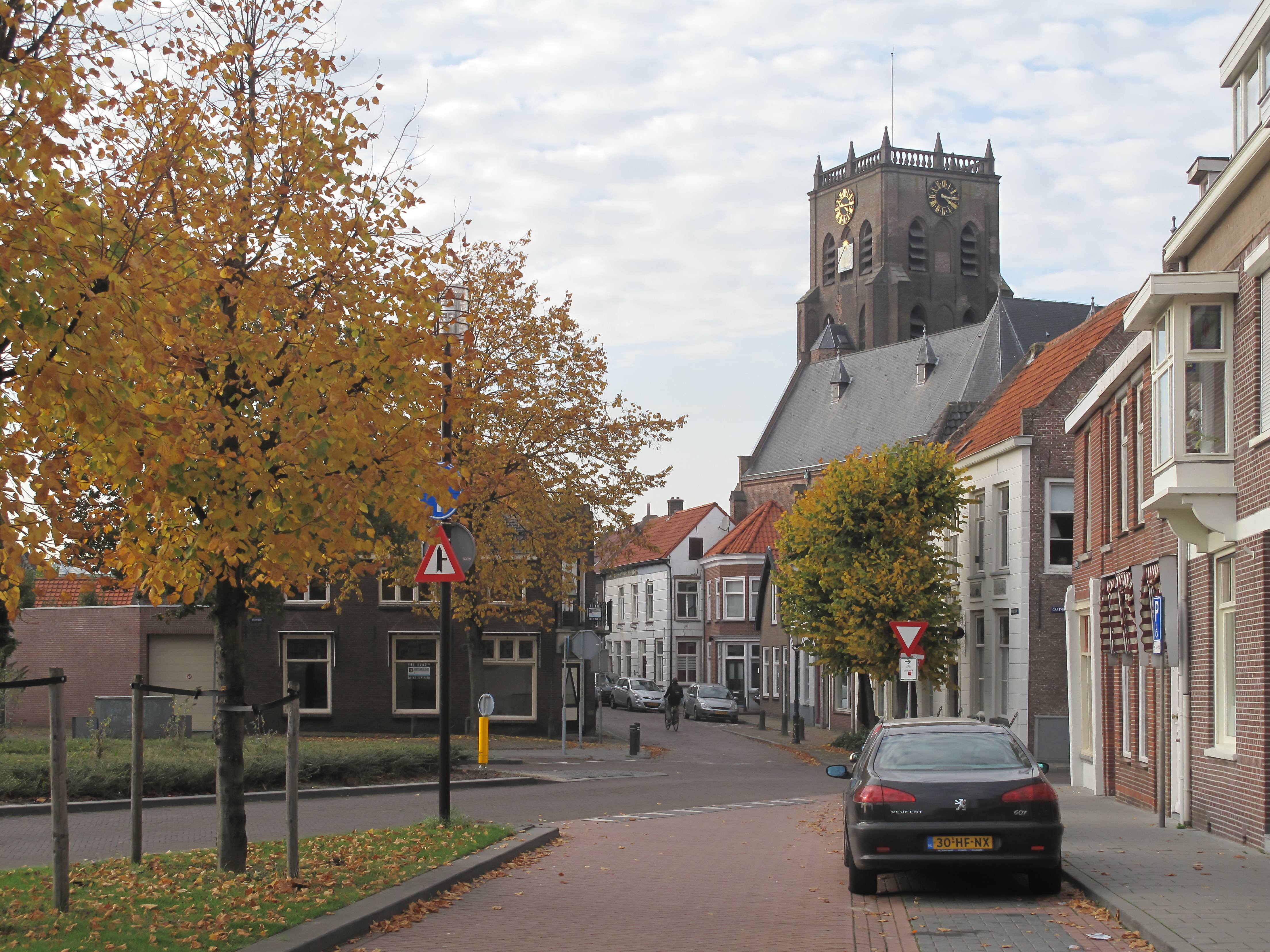 Geertruidenberg, churchtower (Geertruidskerk) in the street